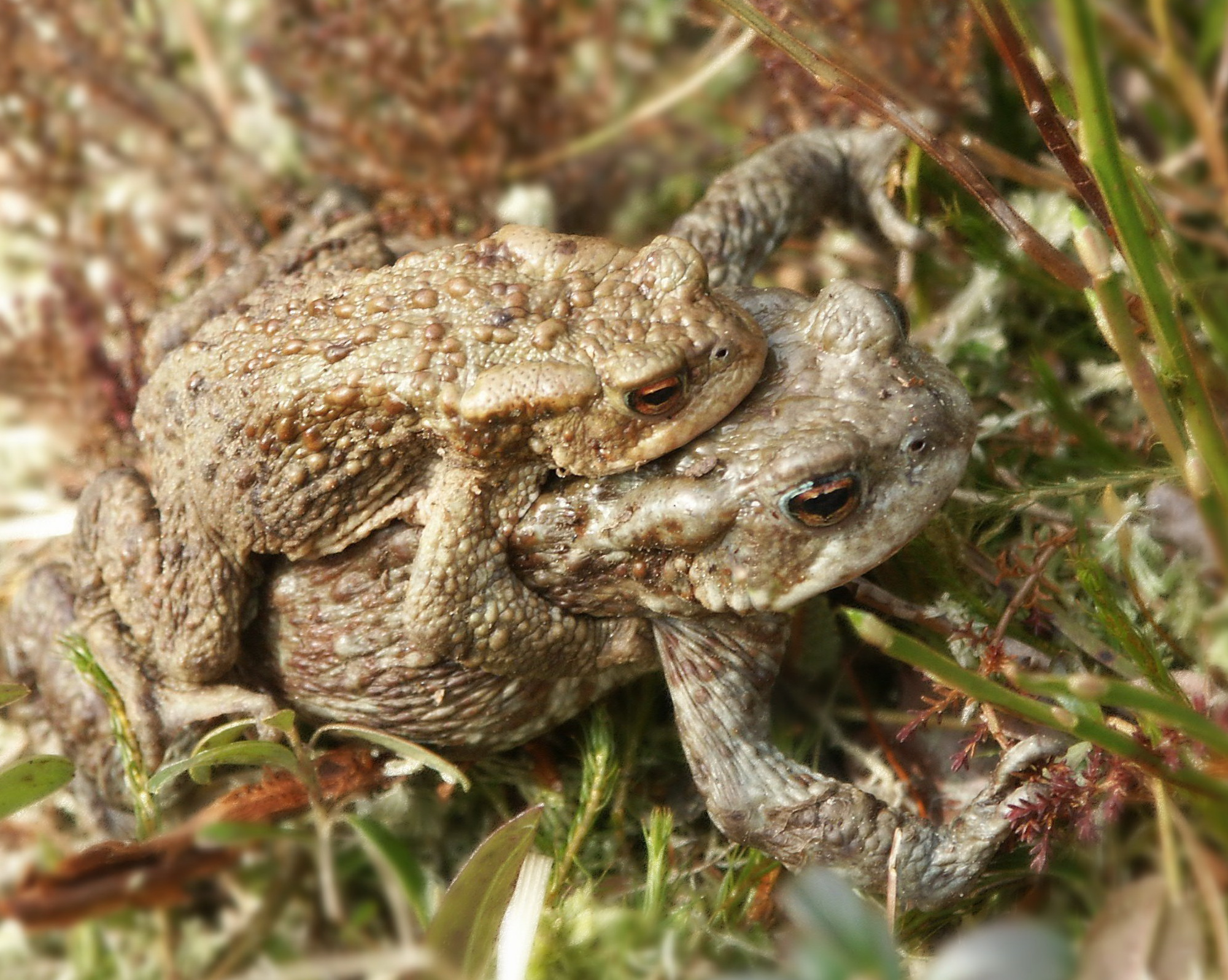 Mating toads